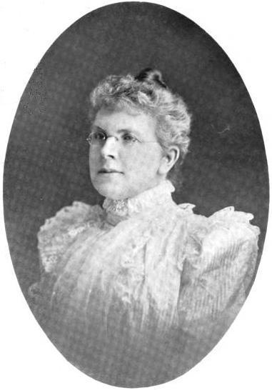 portrait of Elizabeth Gallup as a young woman